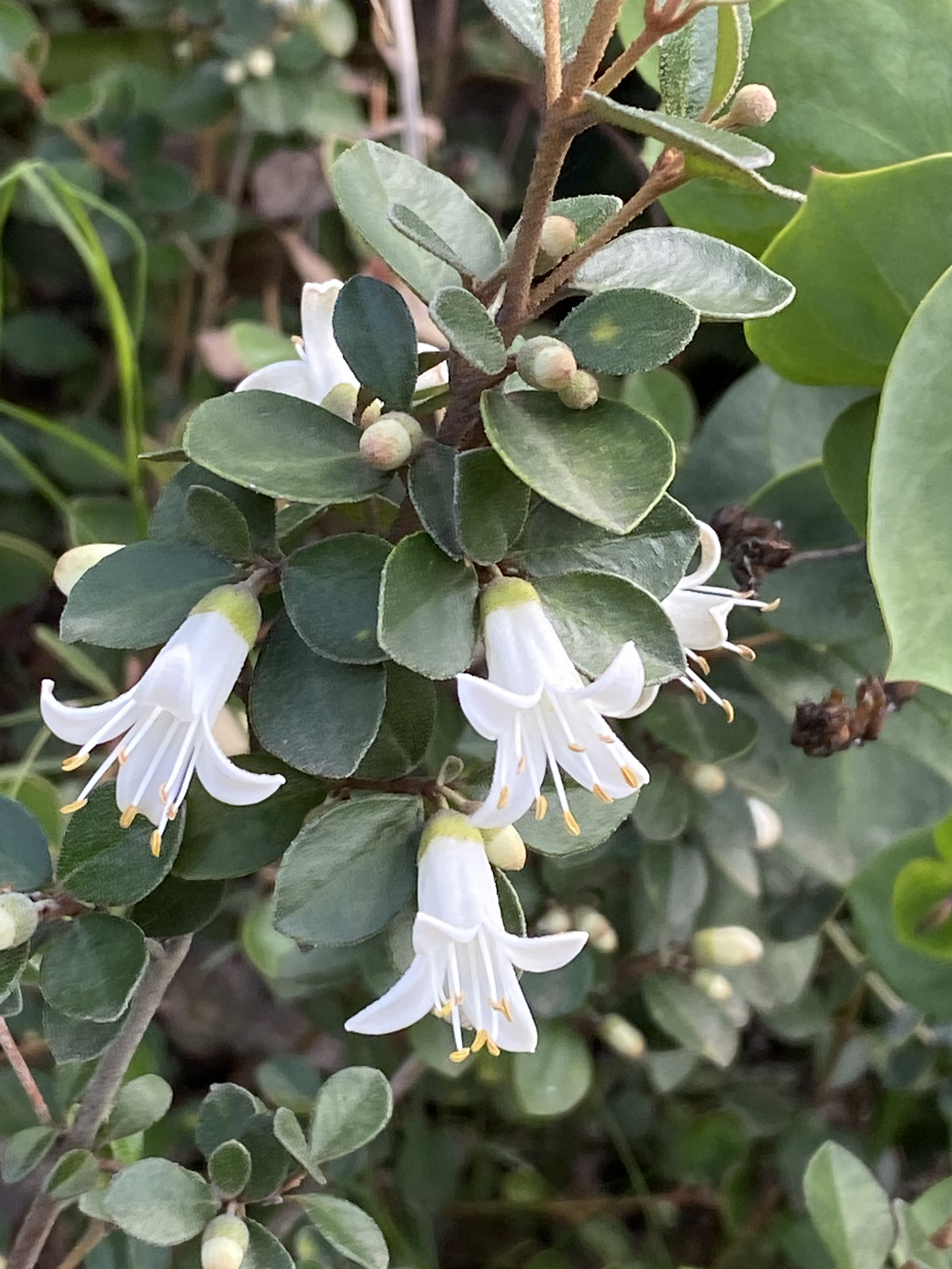 flowers & foliage